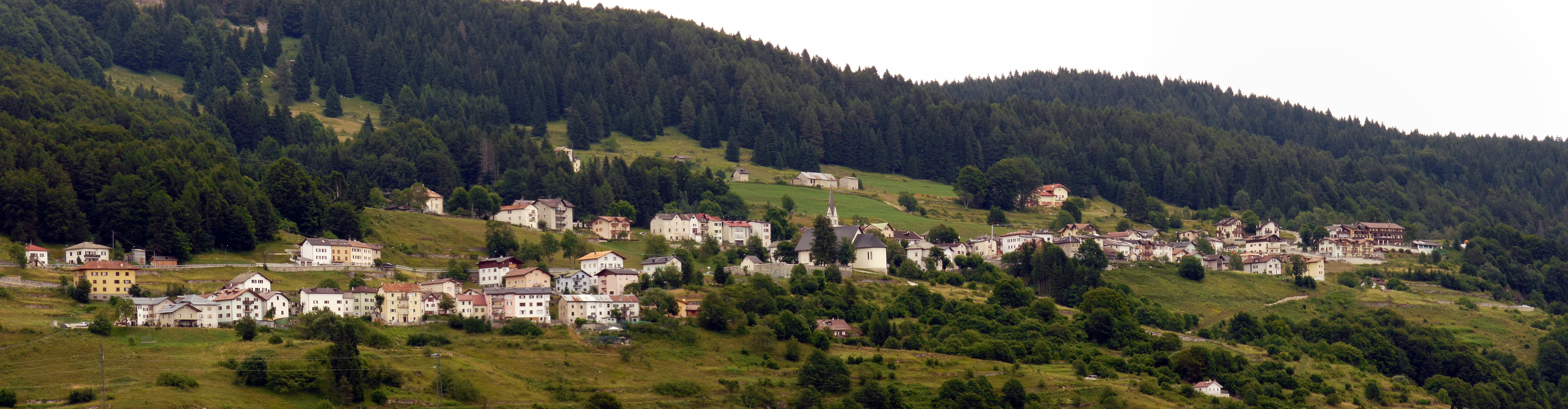 Luserna (Italy): panoramic view of Luserna from Forte Belvedere-Gschwent